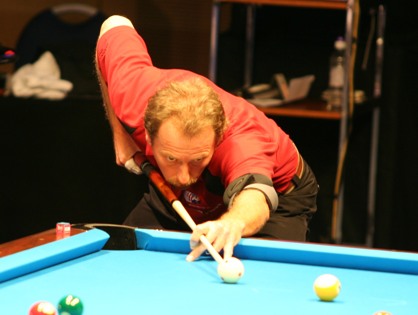 US-american pool player Earl Strickland at the Mosconi Cup 2008 in Malta.